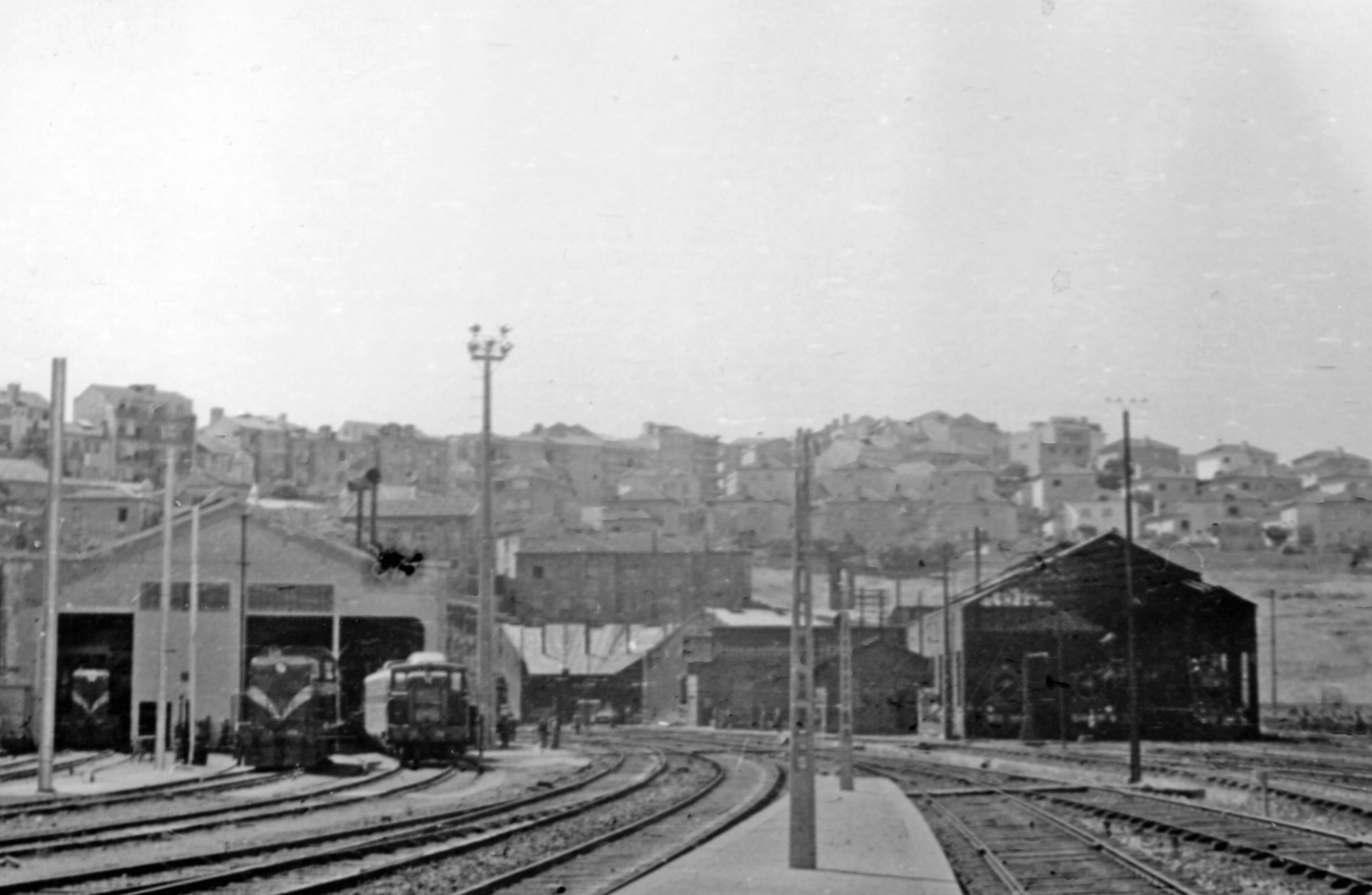 Lisboa, Campolide 1956: Locomotive Depot seen from station.